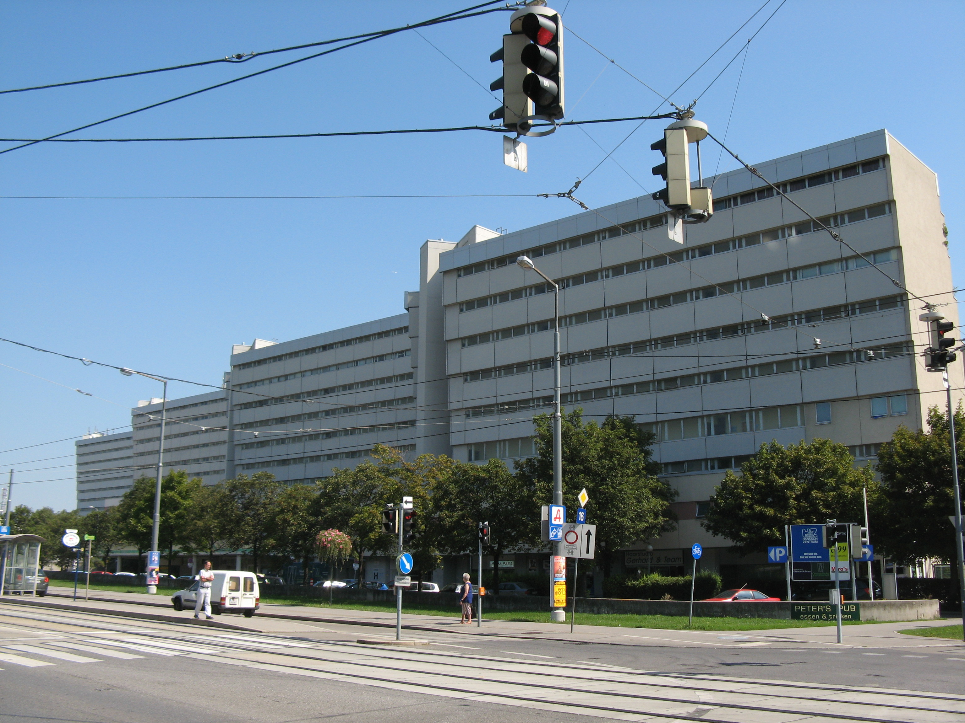 Olof-Palme-Hof (1972-76), Seite zur Favoritenstraße, Per-Albin-Hansson-Siedlung Ost, Wien-Favoriten This media shows the Vienna residential building (Gemeindebau) with the ID 254 (Olof Palme-Hof).